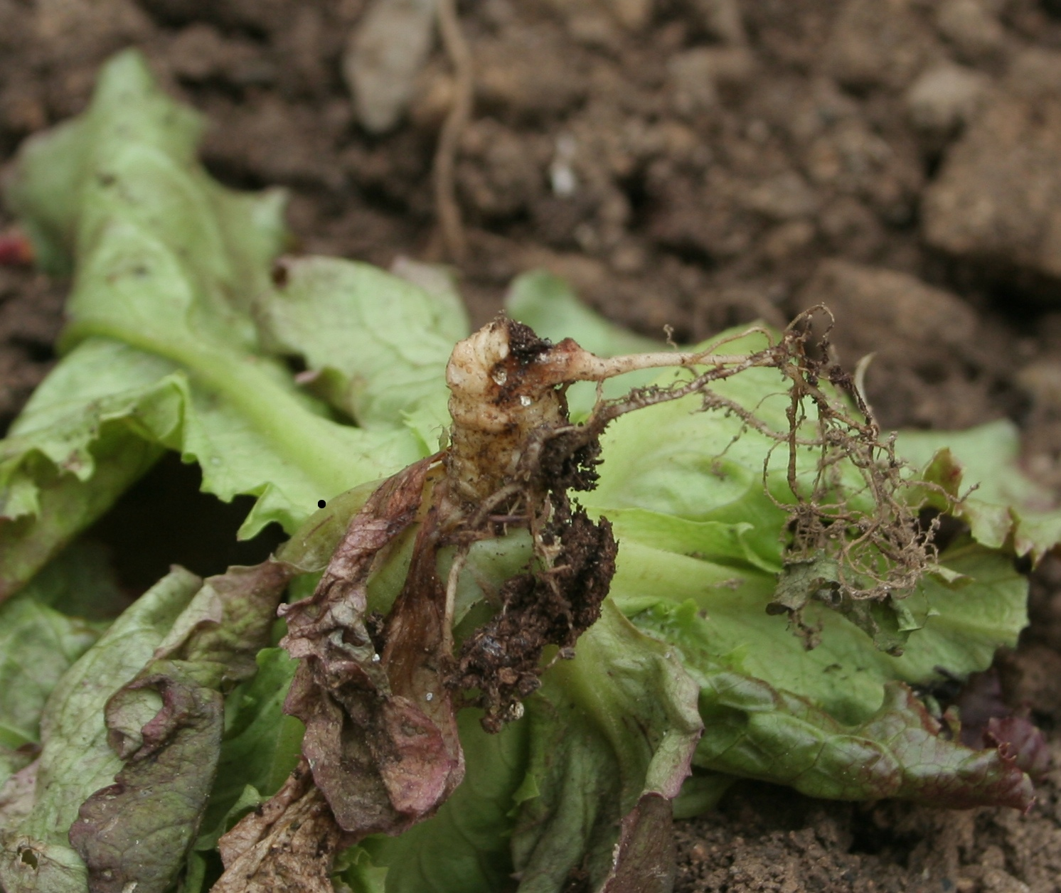 Salad eaten by a caterpillar Korscheltellus lupulinus (home garden in Niort)